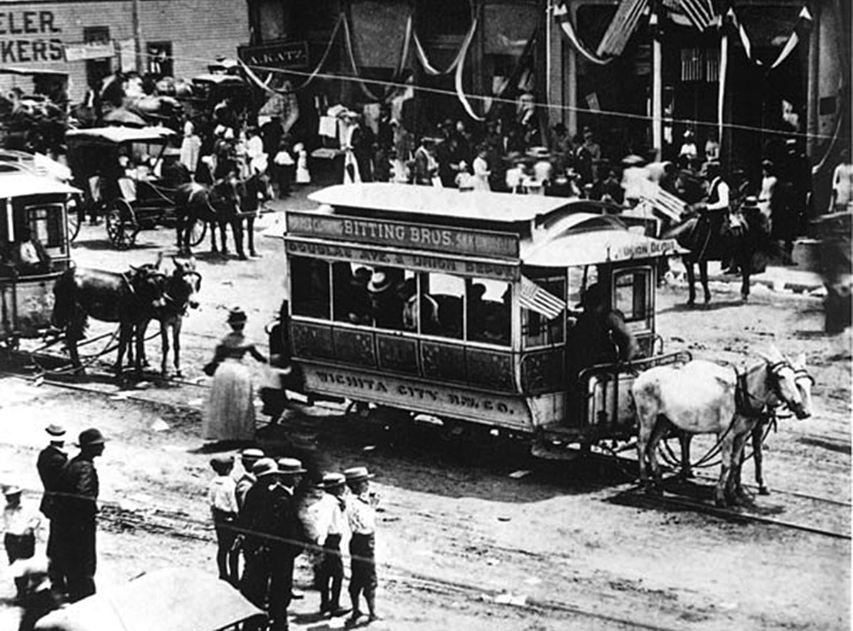 Horse drawn trolley car, Wichita City Railway Company